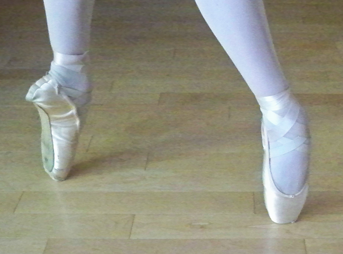 A ballet dancer demonstrating Seventh Position.